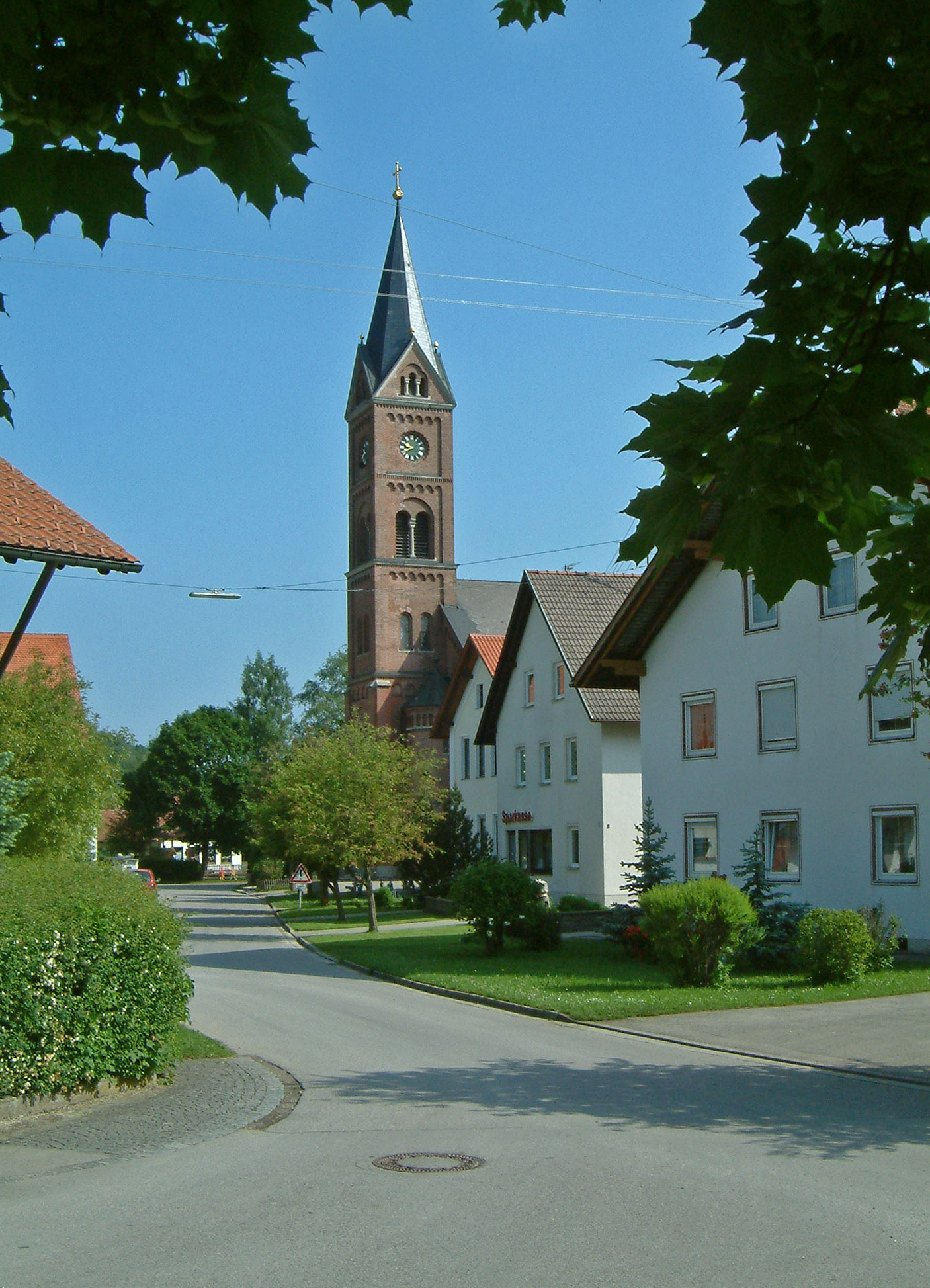 Baisweil, bell tower of St John the Baptist's Church from south (Sankt-Anna-Straße).